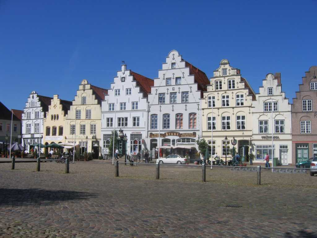 Marketplace and Houses in dutch style in Friedrichstadt / Germany